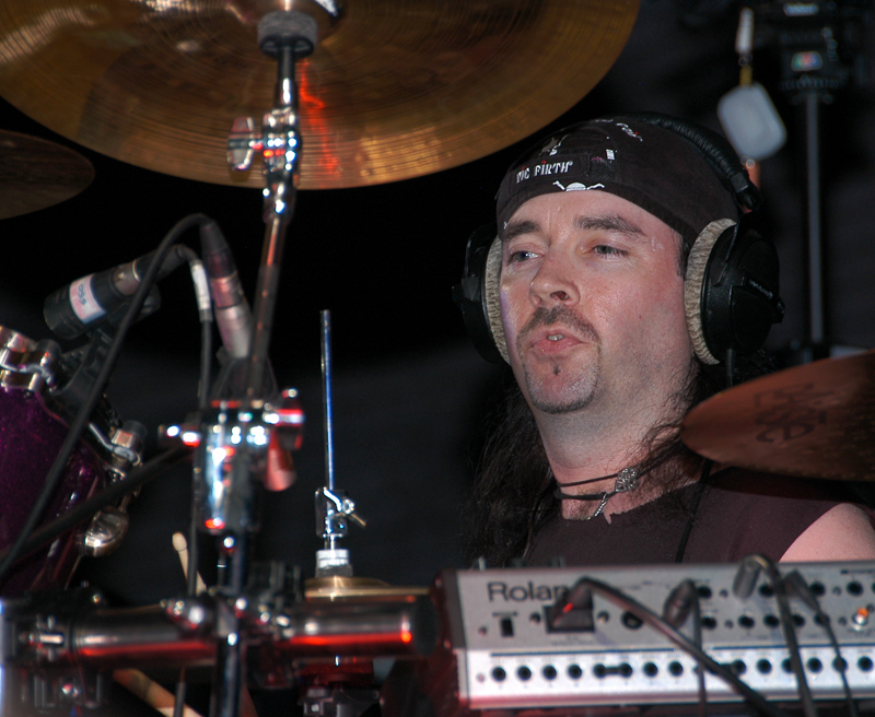 Dave Mackintosh of the band Dragonforce taken by me at the DrumFest drum event in Brentwood, London, UK on the 12th of August 2007.